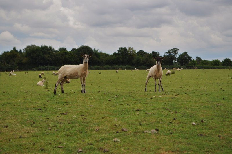 Sheep on Tasburgh Iron Age Fort, near to Tasburgh, Norfolk, Great Britain. Two sheep wonder what I am doing. The southern and eastern side, aswell as the south eastern side has been eroded away by time but the central north and western part of the site is preserved (sort of!). The site is owned by the Norfolk Archaeological Trust, it is roughly oval in plan surrounded by earth ramparts. Standing on a oval piece of land surrounded by the river Tas and Hempnall stream. The Trust bought 16 acres (6.5 hectares) of the site in 1994 mainly to prevent further plough damage to the western ramparts. The best preserved ramparts lie on the northern side where there is still an ancient hedgerow. The date is unknown but there has been settlement here for thousands of years, excavations have found the site was abandonded by 1200AD.